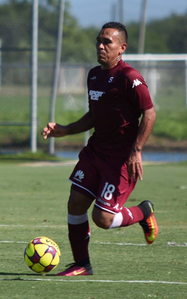 Luis Stewart Pérez training with Saprissa on July 12th, 2017.